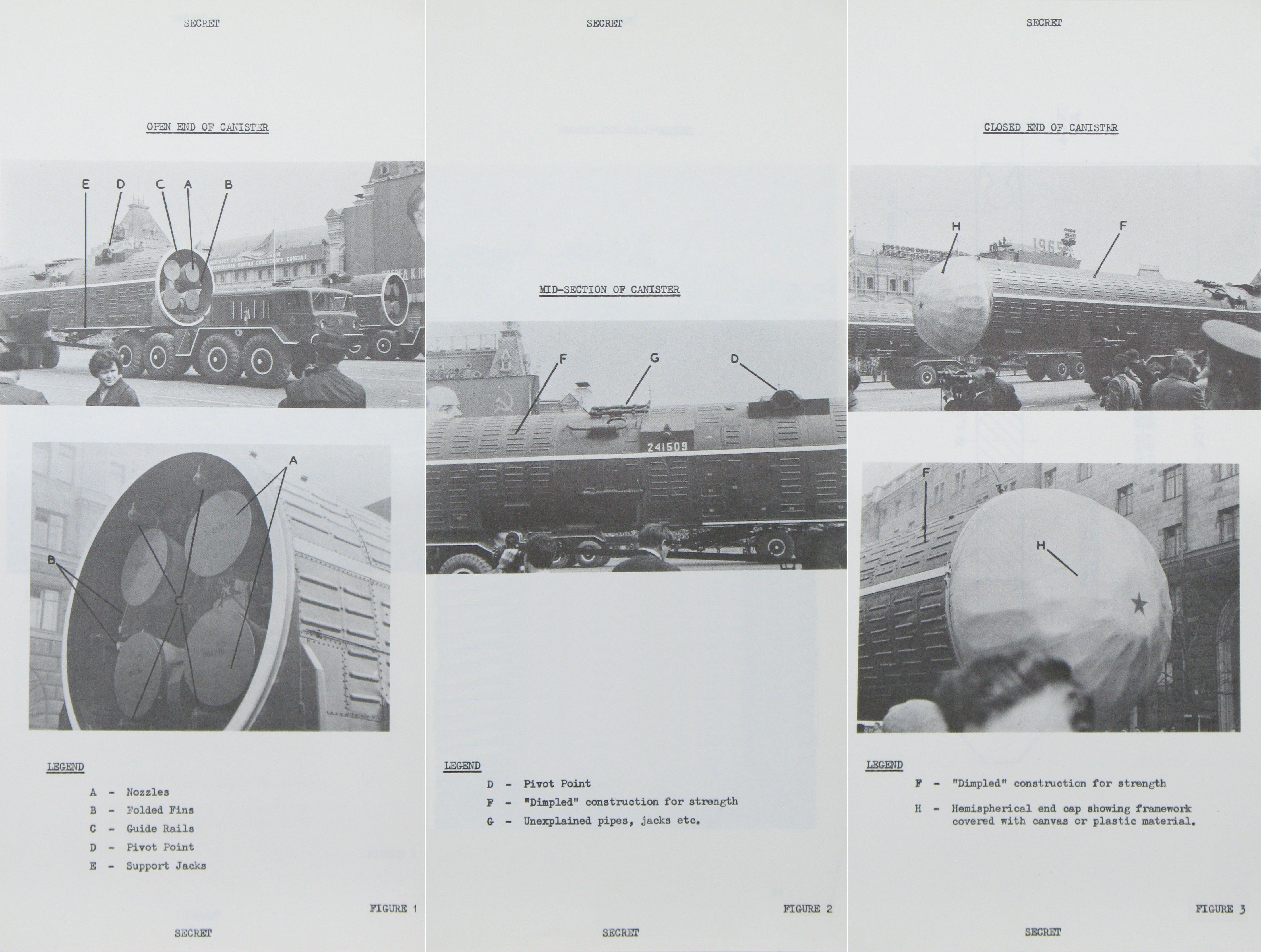 Galosh exo-atmospheric ABM. Declassified UK Ministry of Defence photographs of a containerized Soviet Galosh ABM seen in a Moscow Red Square May Day Military Parade 1964. The original photographs were taken by Western Allied embassy military attachés in the course of their duty. Published in DEFE 44/115 available to view in The National Archives, Kew, London. The annotations were added by UK Ministry of Defence staff based on intelligence, personal observation by Allied embassy military attachés, and possibly other intelligence sources. The National Archives file is no longer classified and is in the public domain. UK Crown Copyright expired after 50 years.